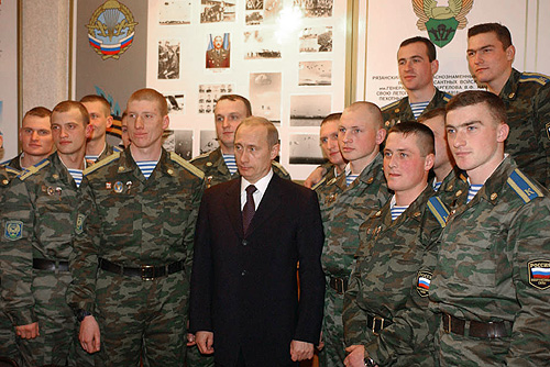 RYAZAN. President Putin with military cadets of the Ryazan Paratrooper Institute named after General of the Army Vasily Margelov.